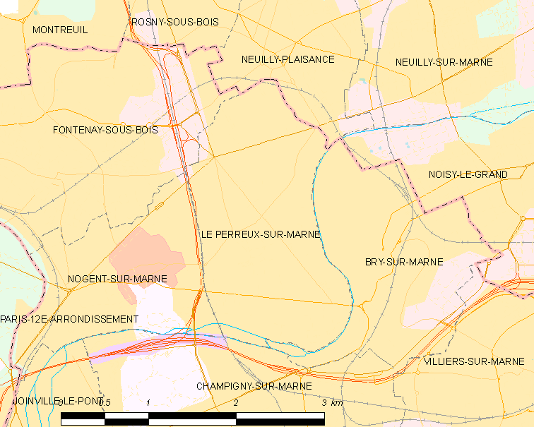 Map of French municipality Le Perreux-sur-Marne